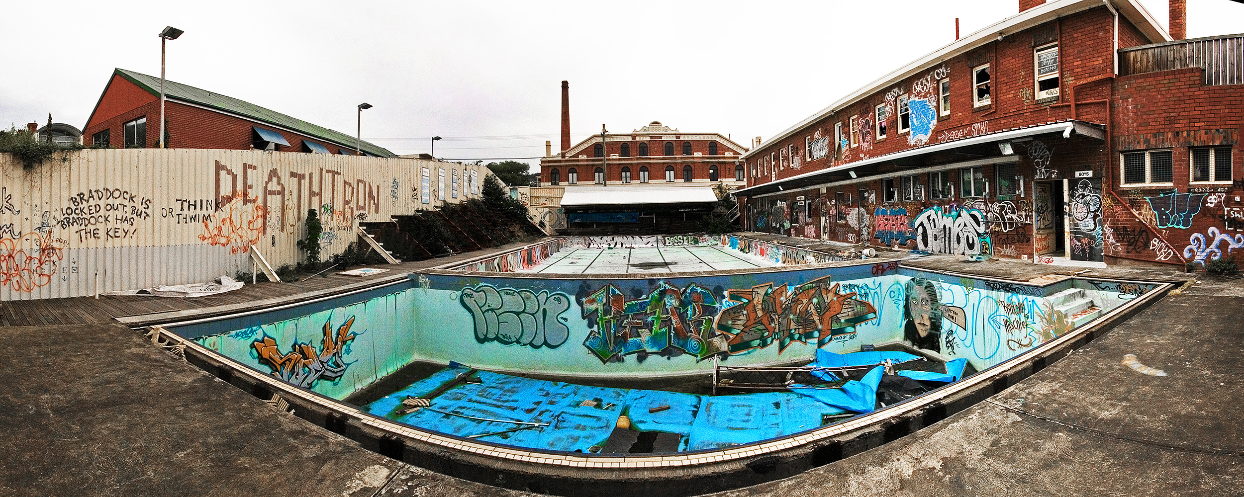 An abandoned and empty swimming pool. Camera data Camera Canon EOS 400D Lens Sigma 10-20mm F4-5.6 EX DC HSM Focal length 10 mm Aperture f/11 Exposure time 1/250 s Sensivity ISO 1600